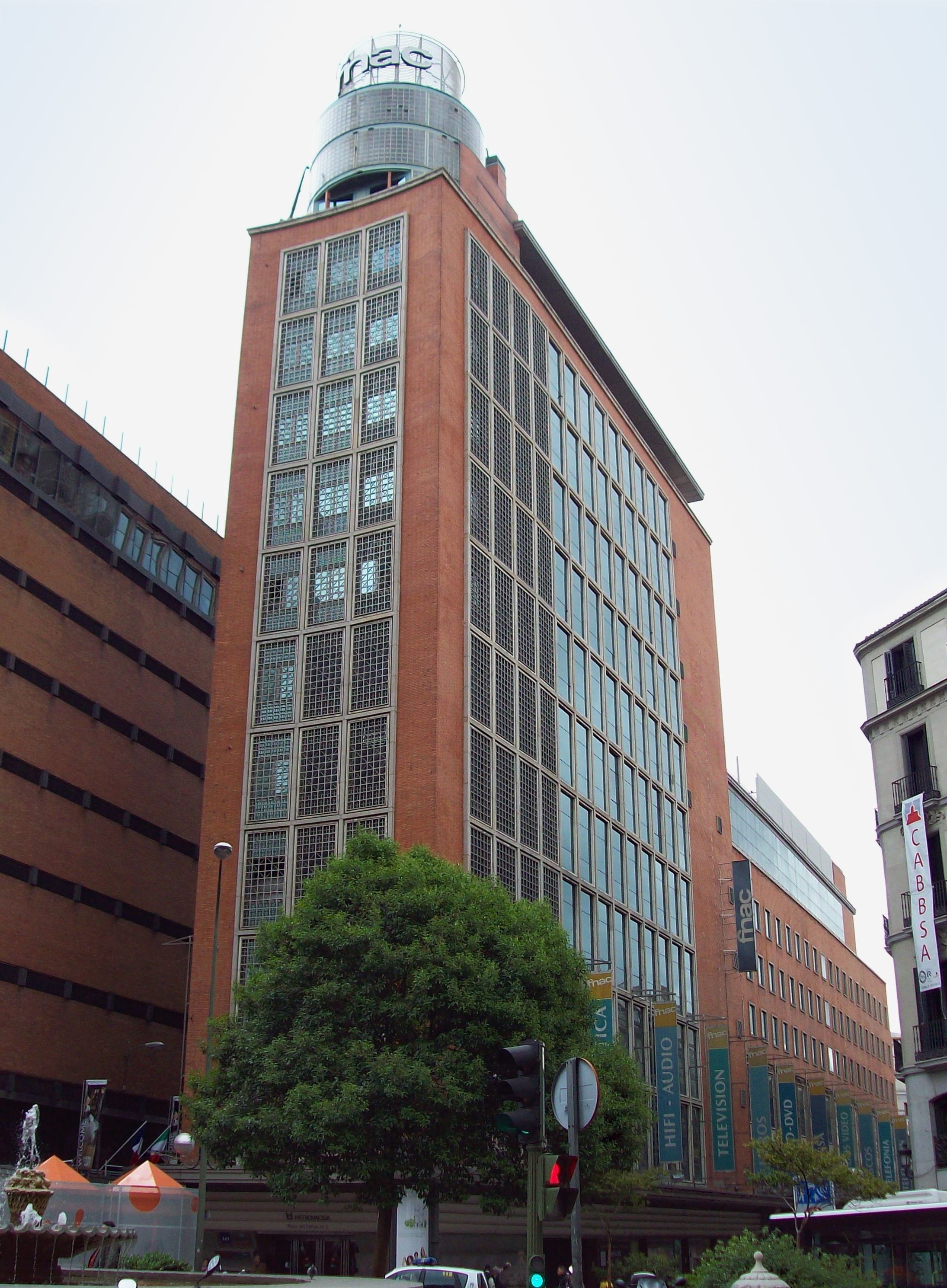 Fnac building at Plaza del Callao (square) in Madrid (Spain).